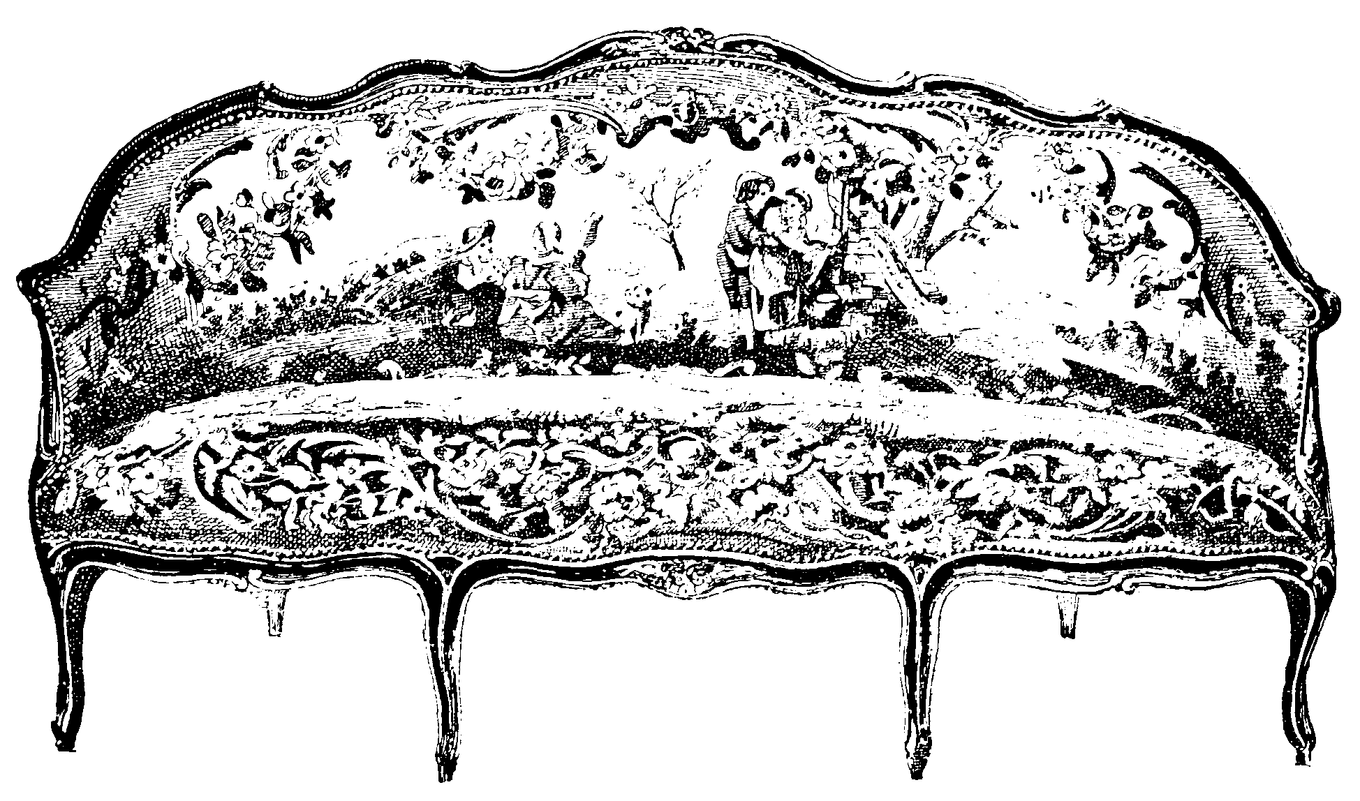 French rococo couch